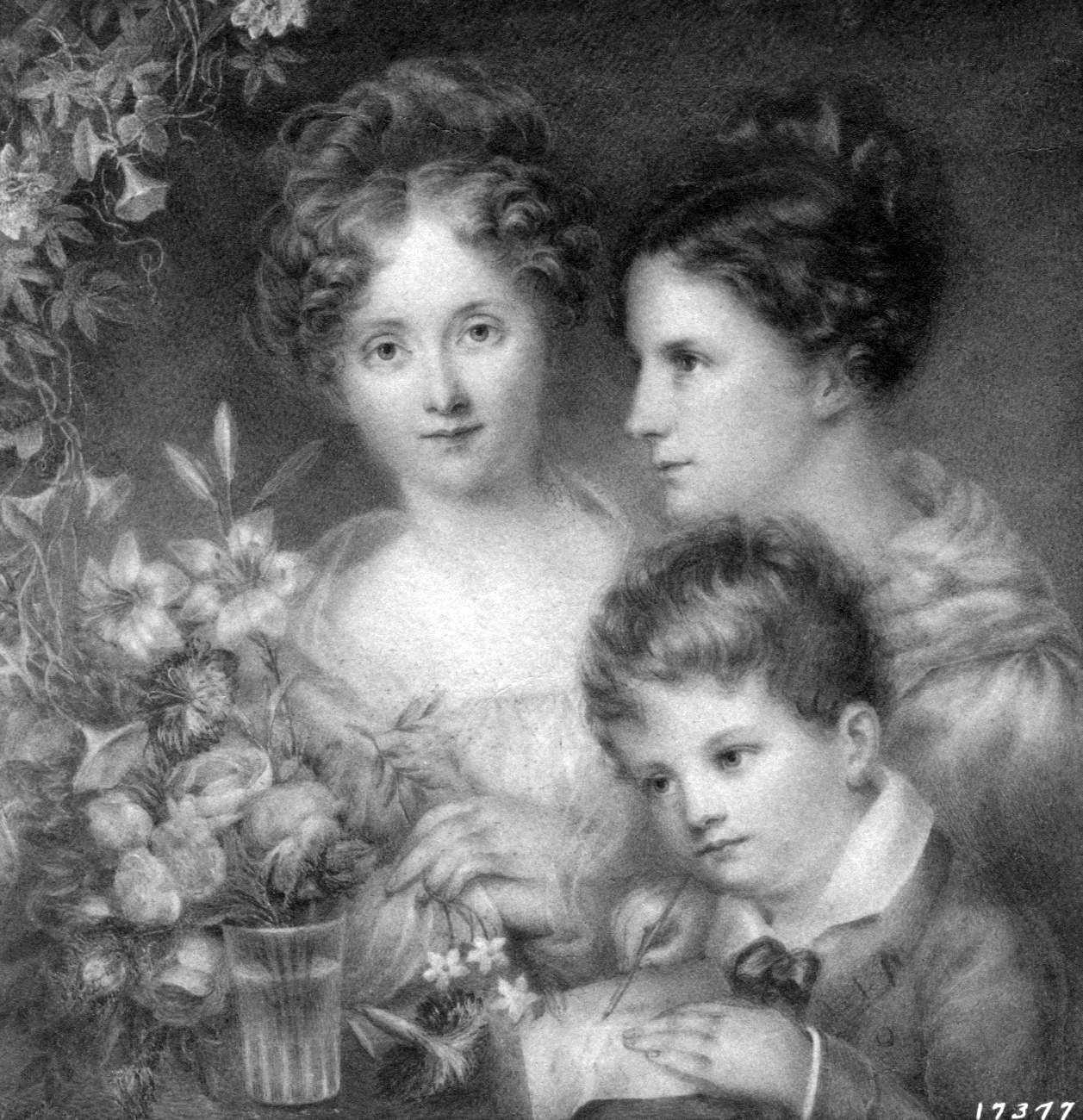 Ann Hall, The Artist, Eliza Hall Ward and Her Son, Henry Hall Ward